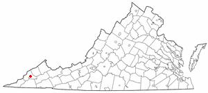 uploaded to Wikimedia Commons at Image:Map of Virginia highlighting Wise (small).png